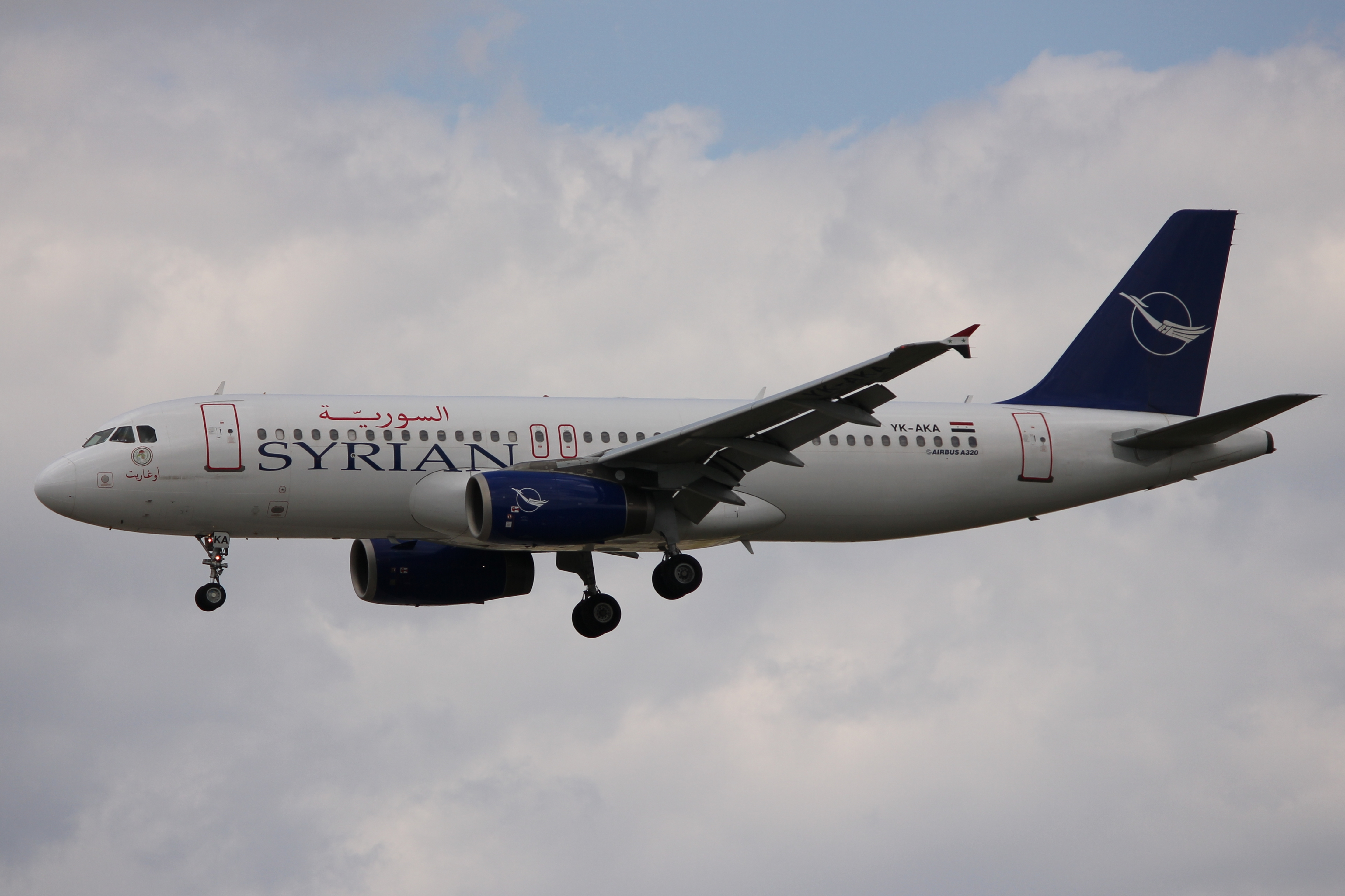 Syrianair A320 landing at Frankfurt intl. Airport.